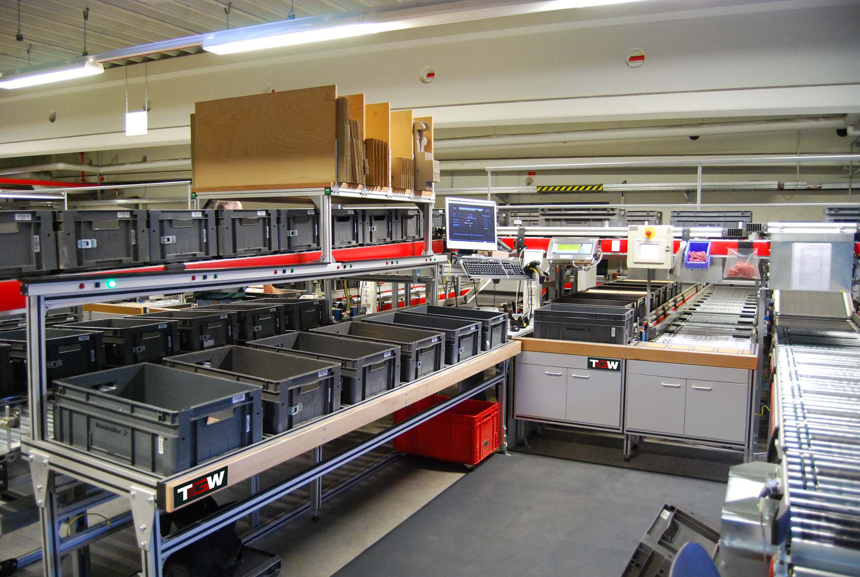 picking workstation, goods-to-operator, pick-to-light